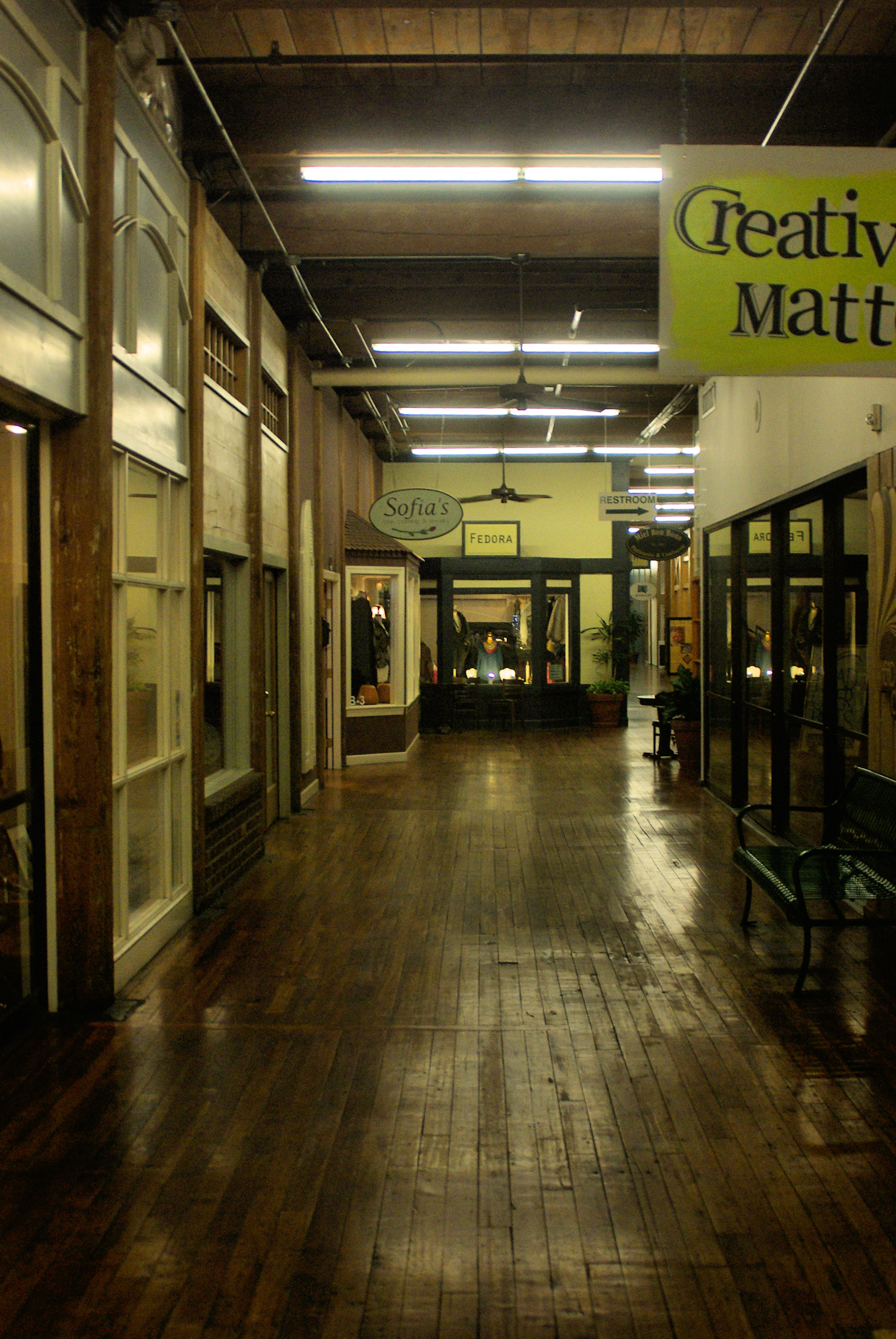 The Interior of Carr Mill Mall -- Carrboro, North Carolina